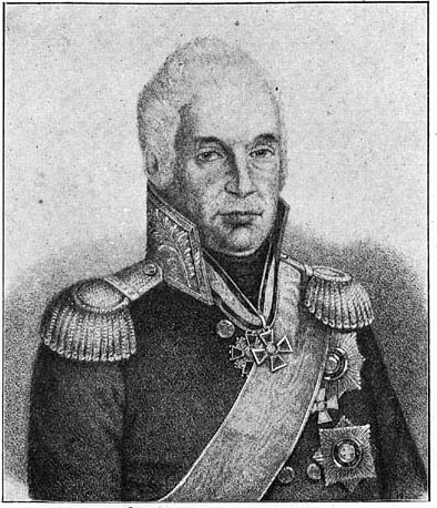 Glazenap, Grigory Ivanovich